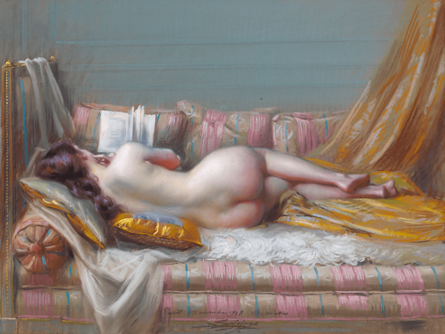 Nu Allongé by Delphin Enjolras